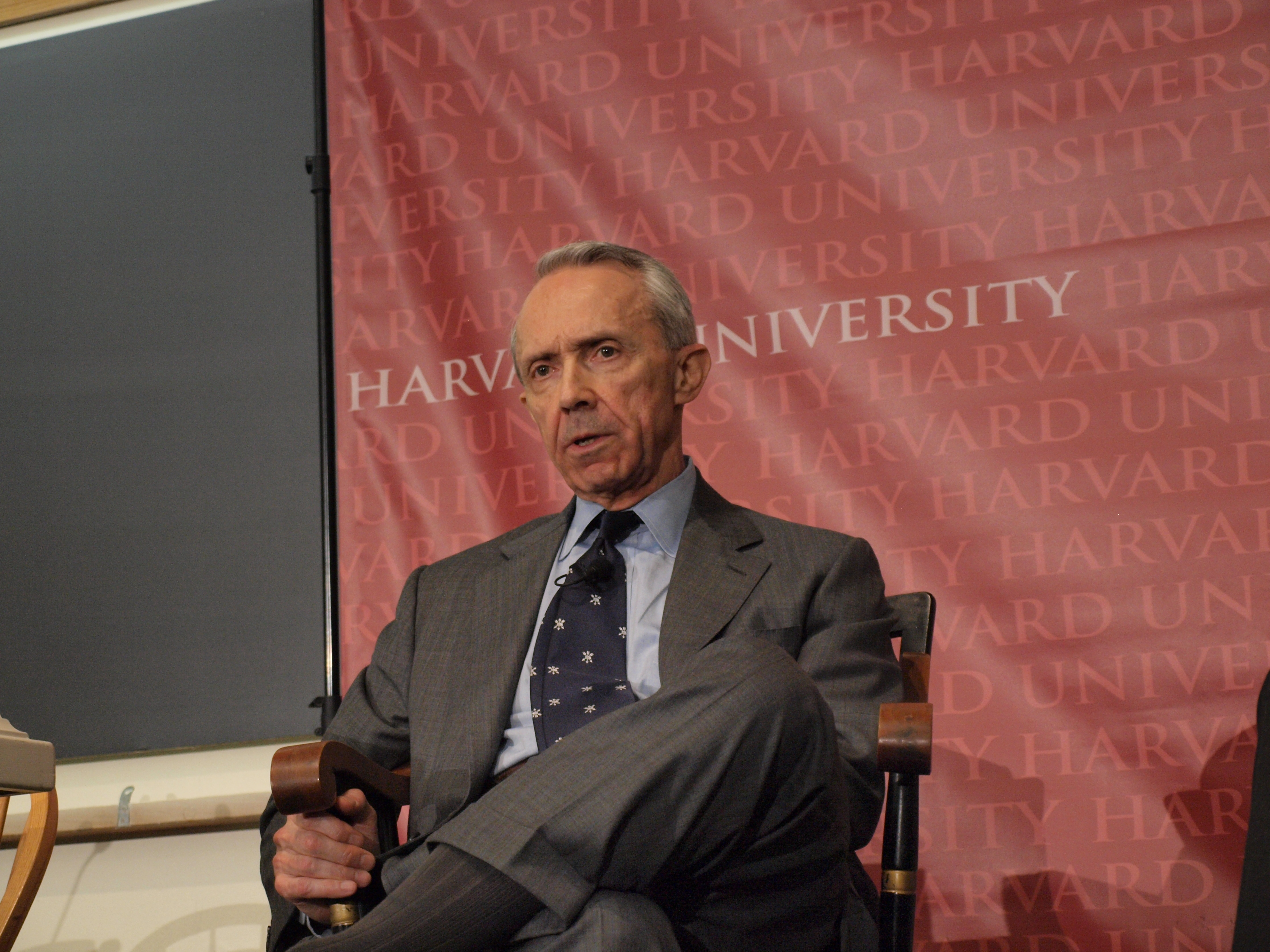 Newly retired Supreme Court Associate Justice David Souter discusses his future plans at a Constitution Day appearance at Harvard Law School.